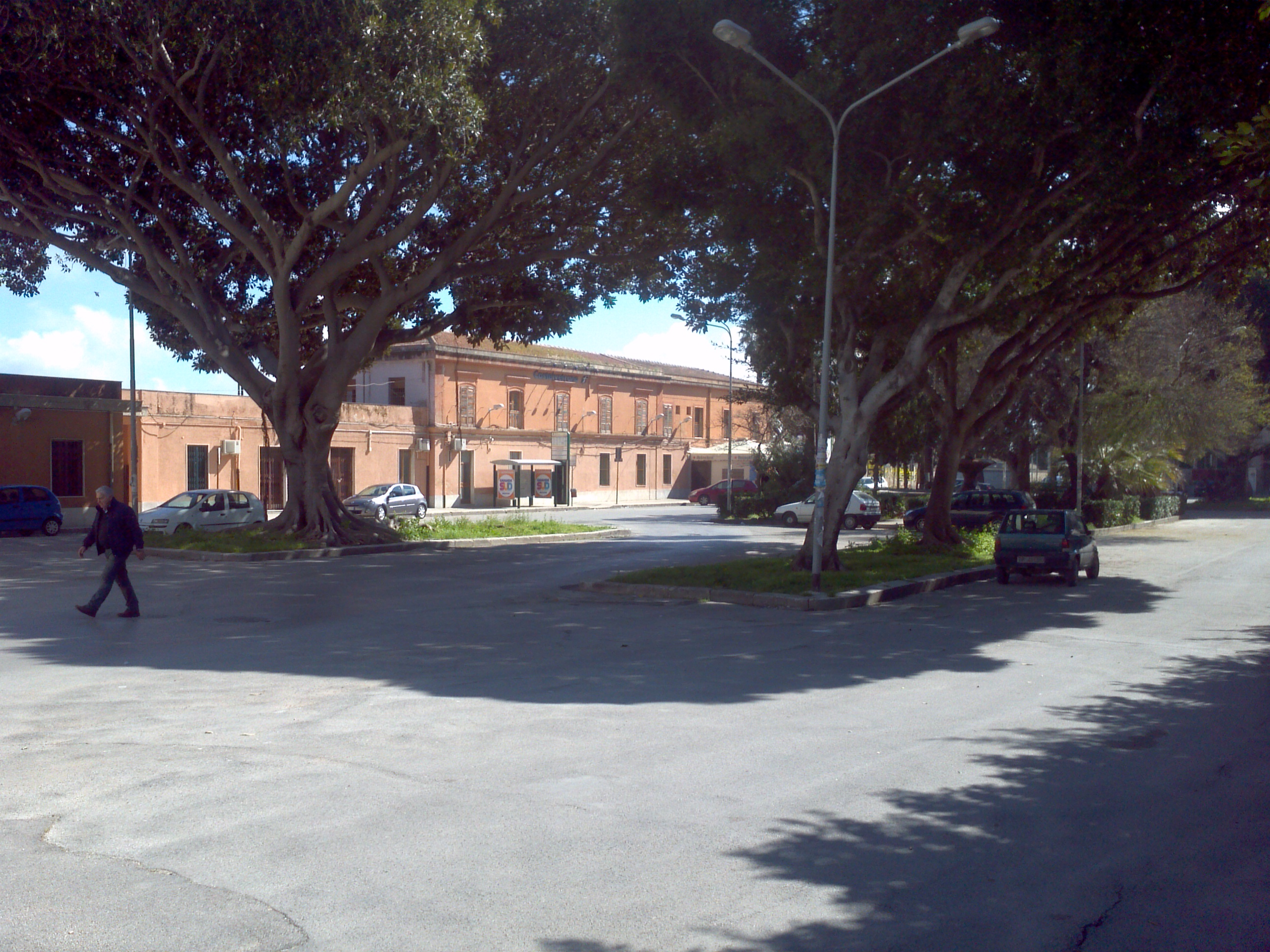 Castelvetrano railway station